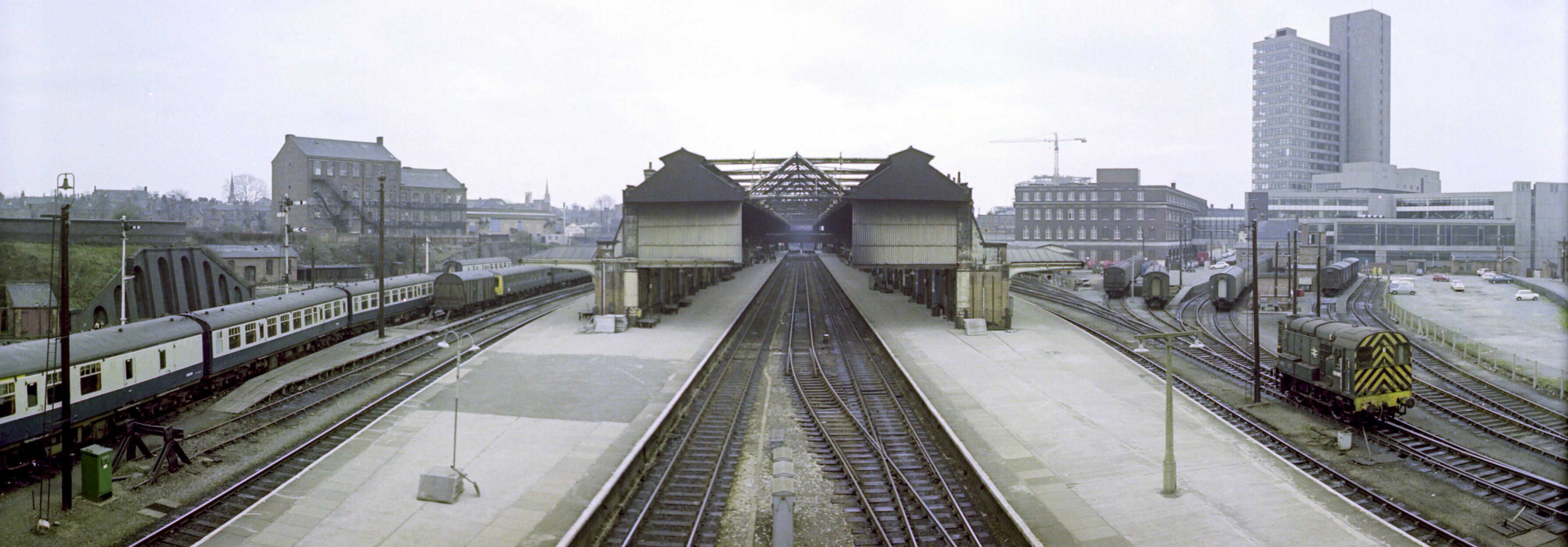 Panoramic photograph of Leicester station before rebuilding with 08695 sitting in the parcels sidings, 13/4/75. On the far right, some of the sidings have been given over to a car park. Eventually the car park would take over the whole of the parcels sidings.